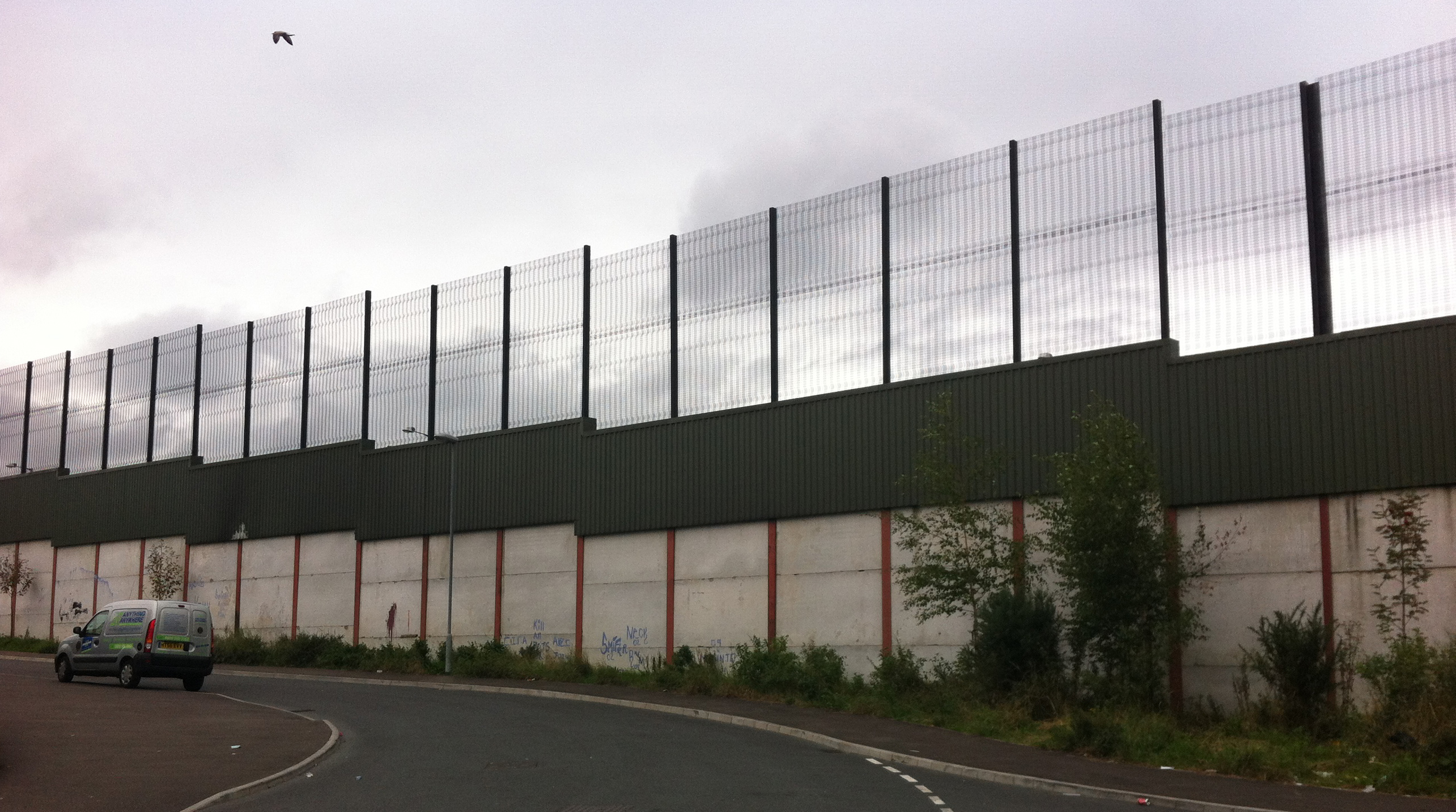 Peace Line